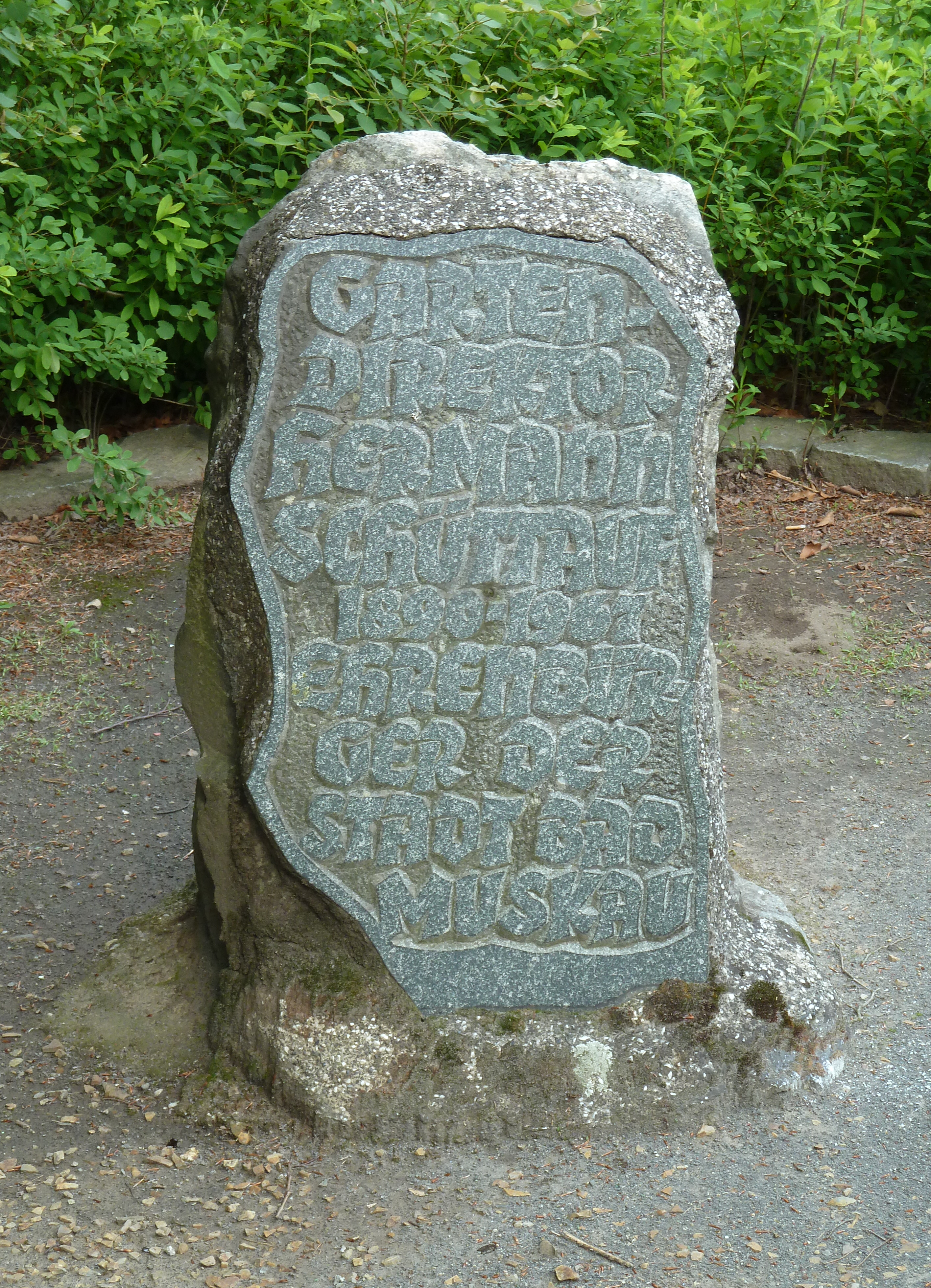 Hermann Schüttauf memorial stone at Schüttauf-Höhe in the Bergpark in Bad Muskau, Germany.